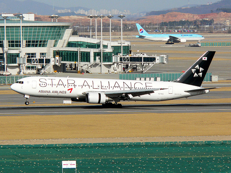 Asiana Airlines(OZ/AAR) Boeing 767-300 'Star Alliance' livery